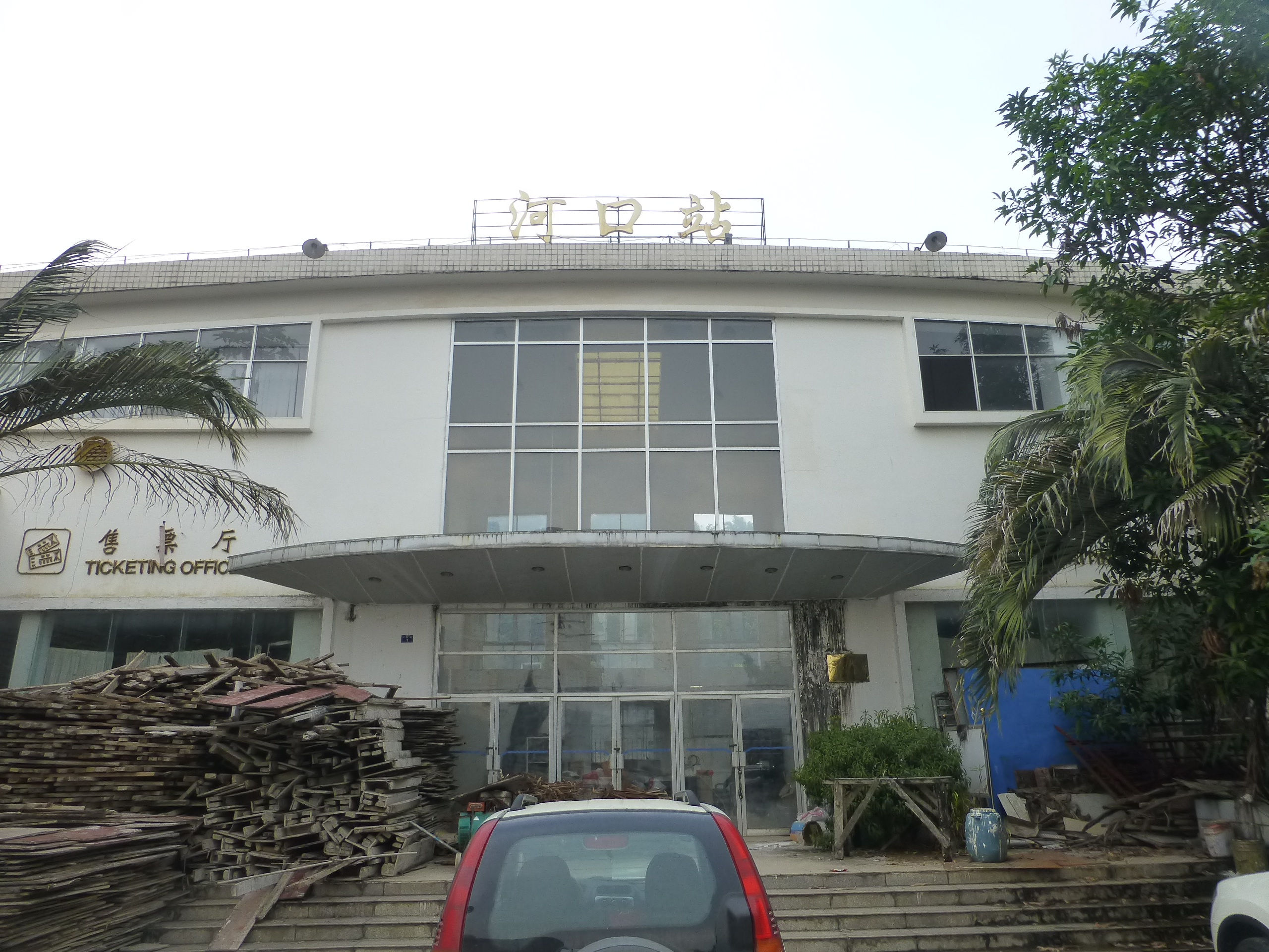 The old Hekou Railway Station, on the meter-gauge Yunnan-Vietnam Railway, in downtown Hekou